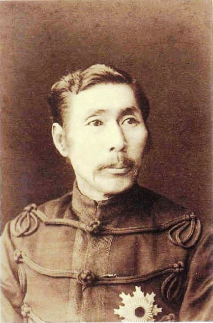 Field Marshal Prince Yamagata Aritomo, OM (山縣 有朋?, 14 June 1838 – 1 February 1922), also known as Yamagata Kyōsuke,[1] was a field marshal in the Imperial Japanese Army and twice Prime Minister of Japan.